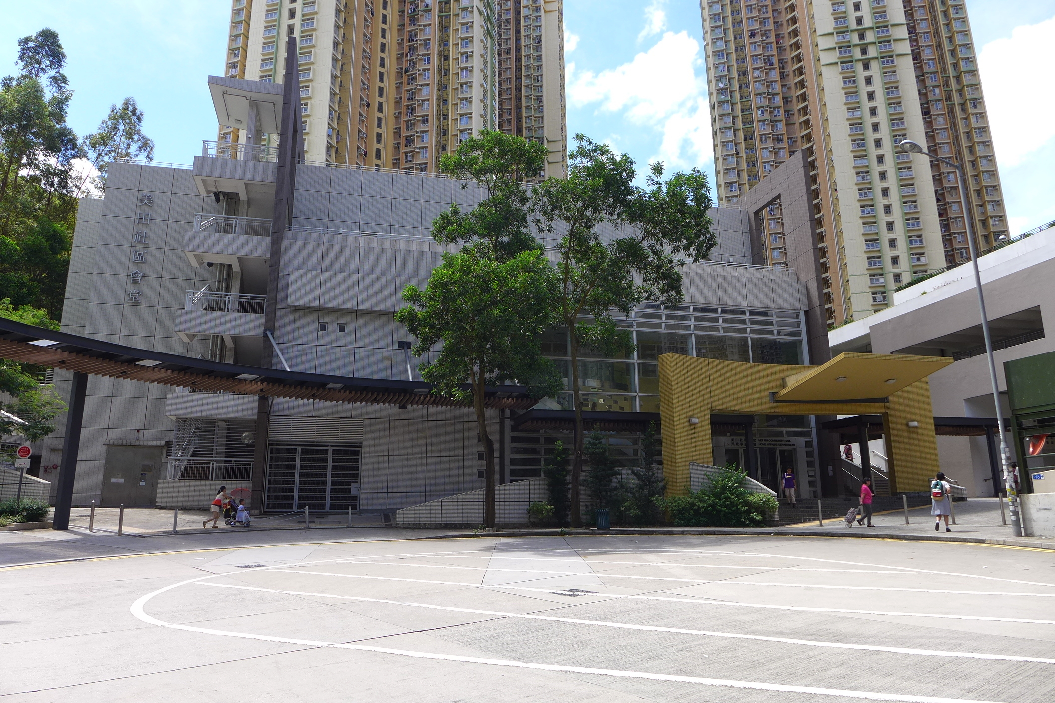 Mei Tin Community Centre